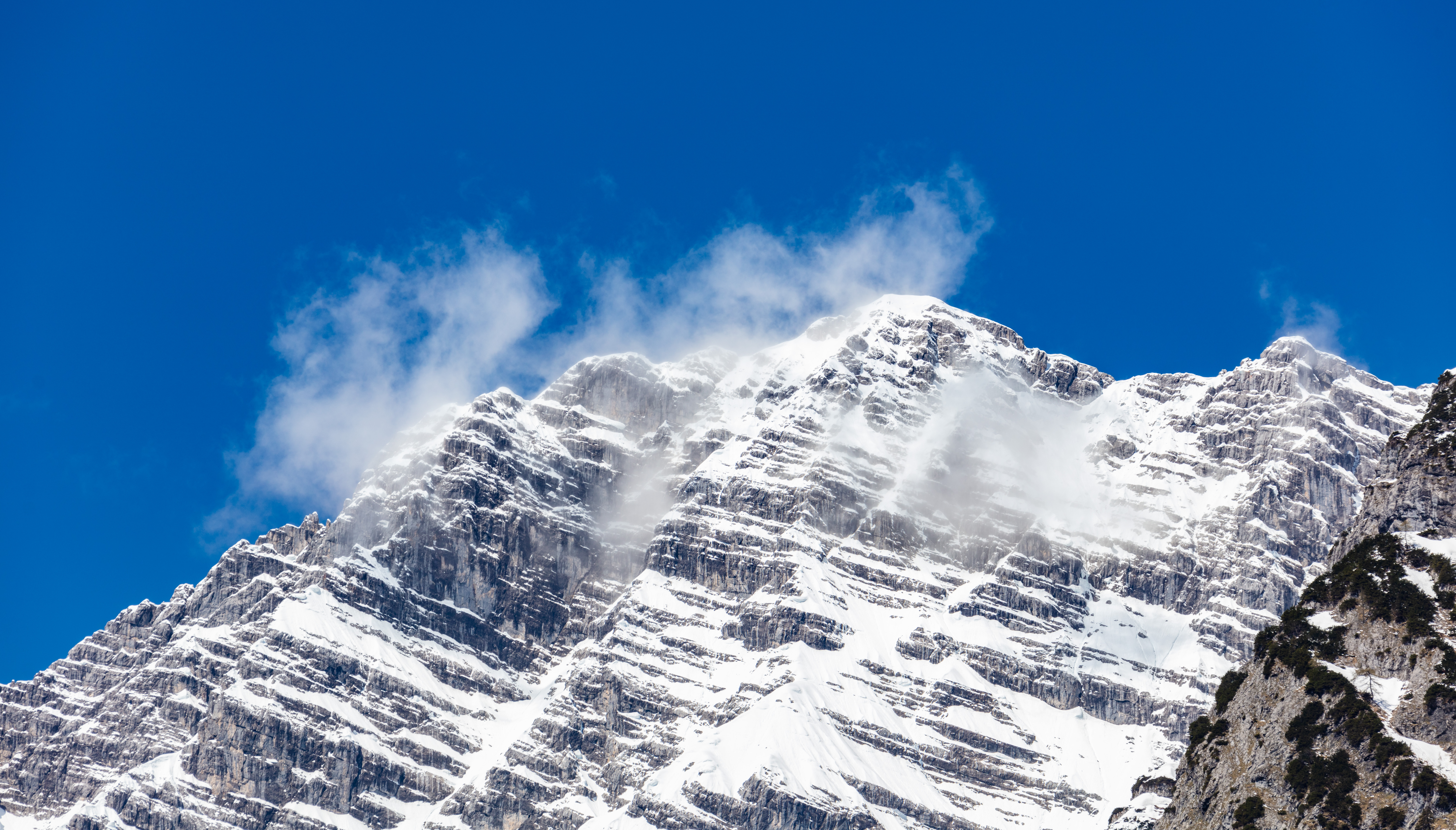 Watzmann, Berchtesgaden Alps, Germany